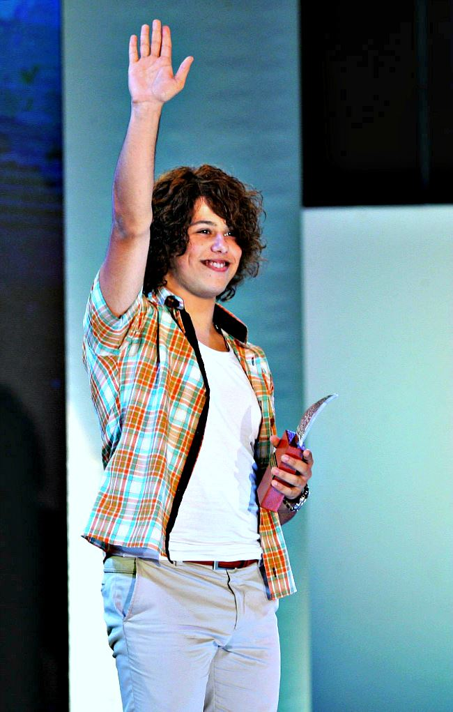 Bobi wins 2 awards on Ohridfest 2013 festival